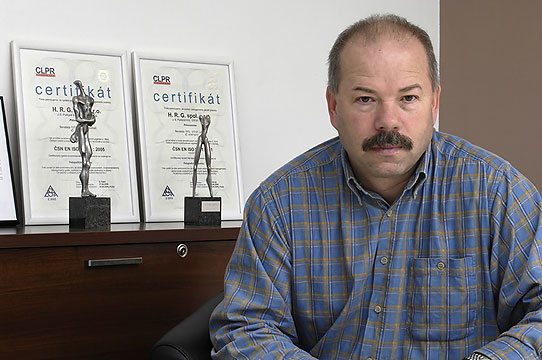 Photo of Petr Lorenc